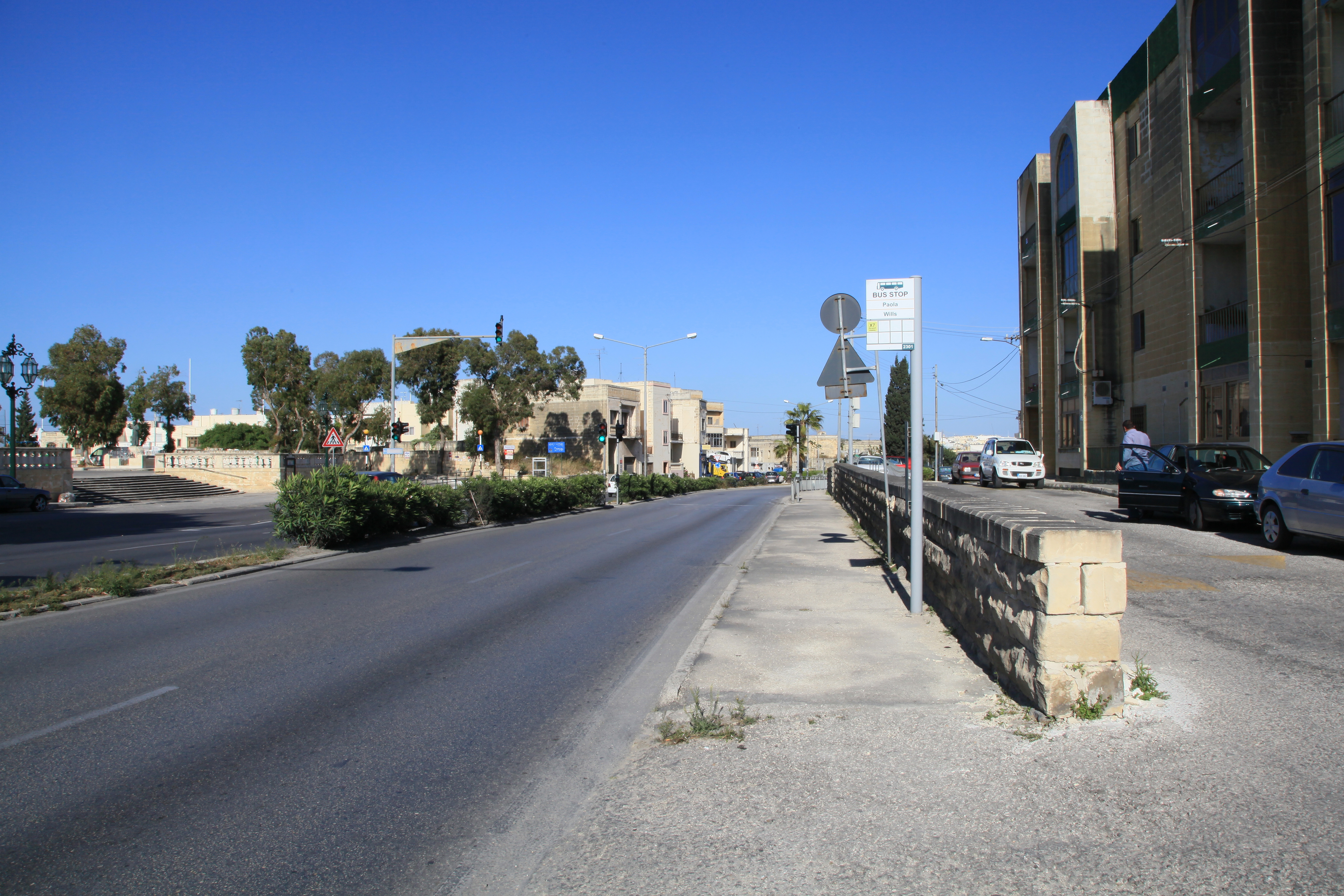 Triq Kordin in Paola, Malta